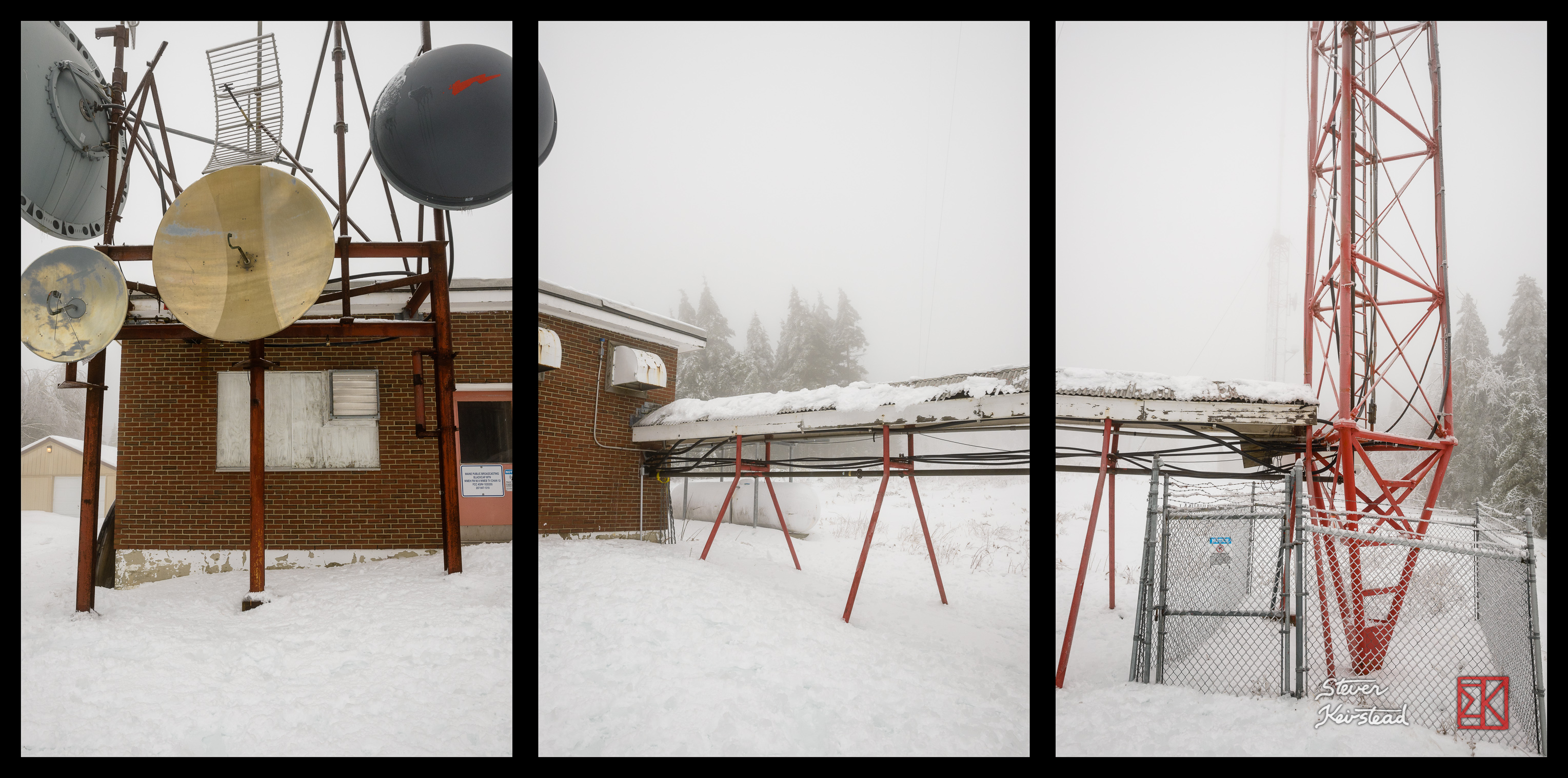 MPBN Transmitter, Blackcap Mountain, Eddington, Maine, MMXIII